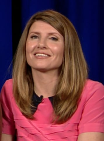 Rob Delaney and Sharon Horgan, creators and costars of the British television situation comedy Catastrophe, interviewed by The Trending Report.